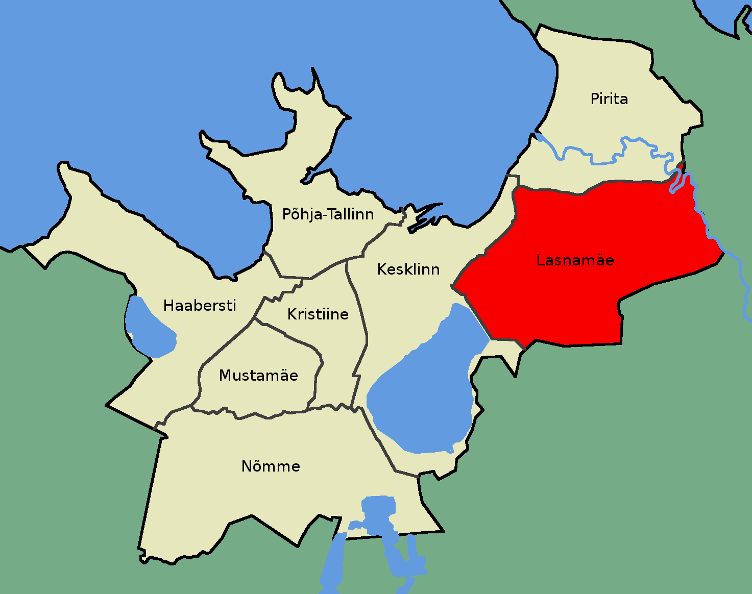 Tallinn (Estonia), the city district of Lasnamäe, with legend